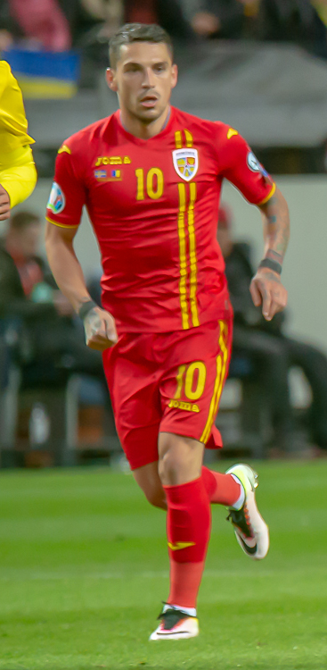 UEFA EURO qualifiers Sweden vs Romaina 20190323